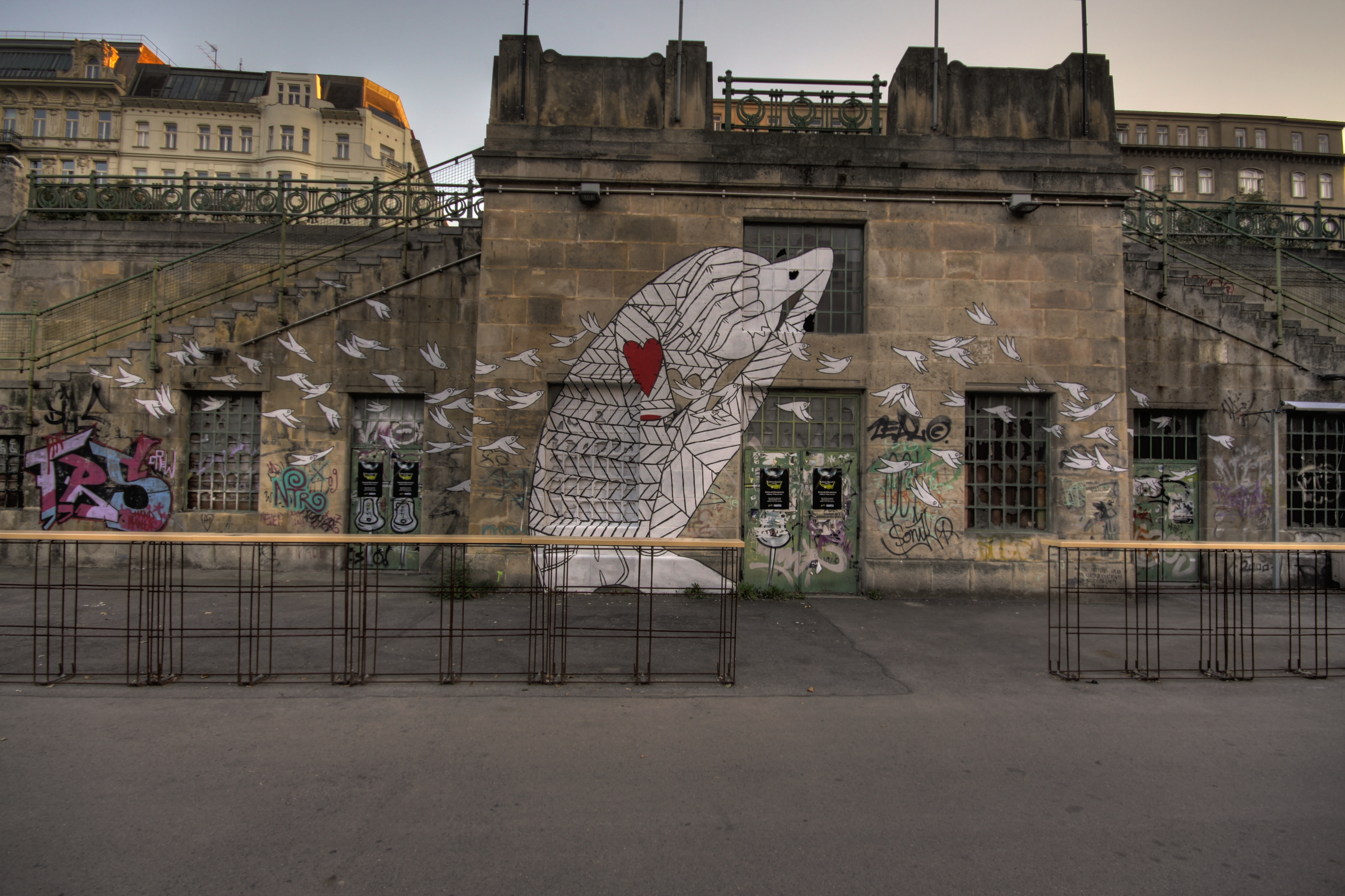 And The Patterns Spoke of a Certain Certainty,Vienna, 2010